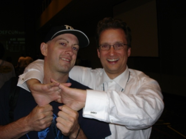 (Grandmaster Ratte' and Mudge of Cult of the Dead Cow taken by DaYuM at DEF CON 14 in 2006.